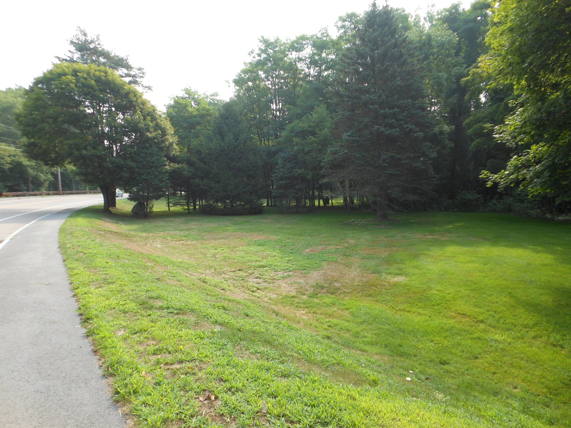 Site of Tanton Iron Works (1656 to 1876), Raynham, Massachusetts.